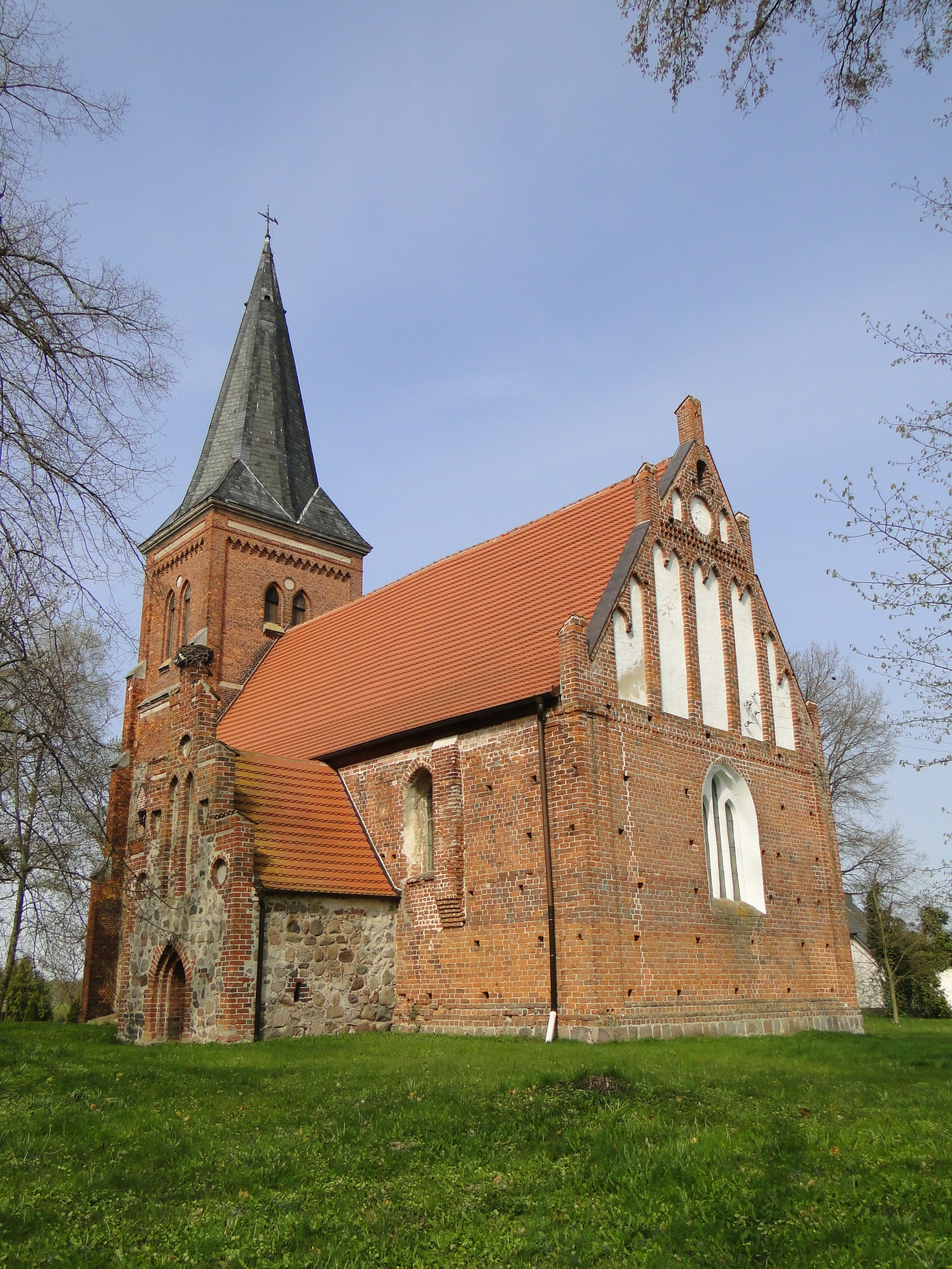 Church in Nätebow, disctrict Müritz, Mecklenburg-Vorpommern, Germany